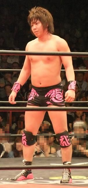 Japanese professional wrestler,Keisuke Ishii.May 4 2011 DDT Korakuen Hall.